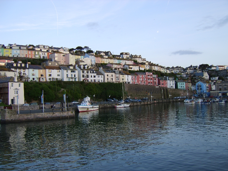 View towards the west of the town from the Harbour viewing platform. Taken on a trip to Brixham in May 2006.